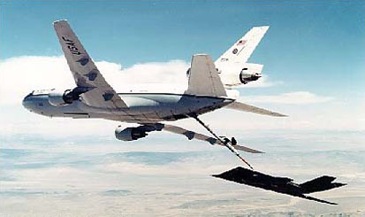 Lockheed F-117A refueling